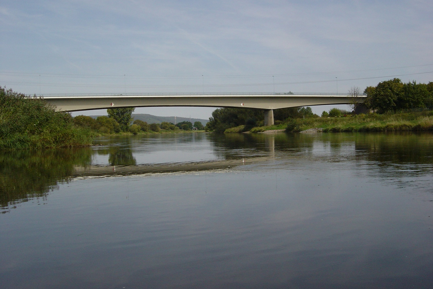 Weser Bridge Lüchtringen (Germany)